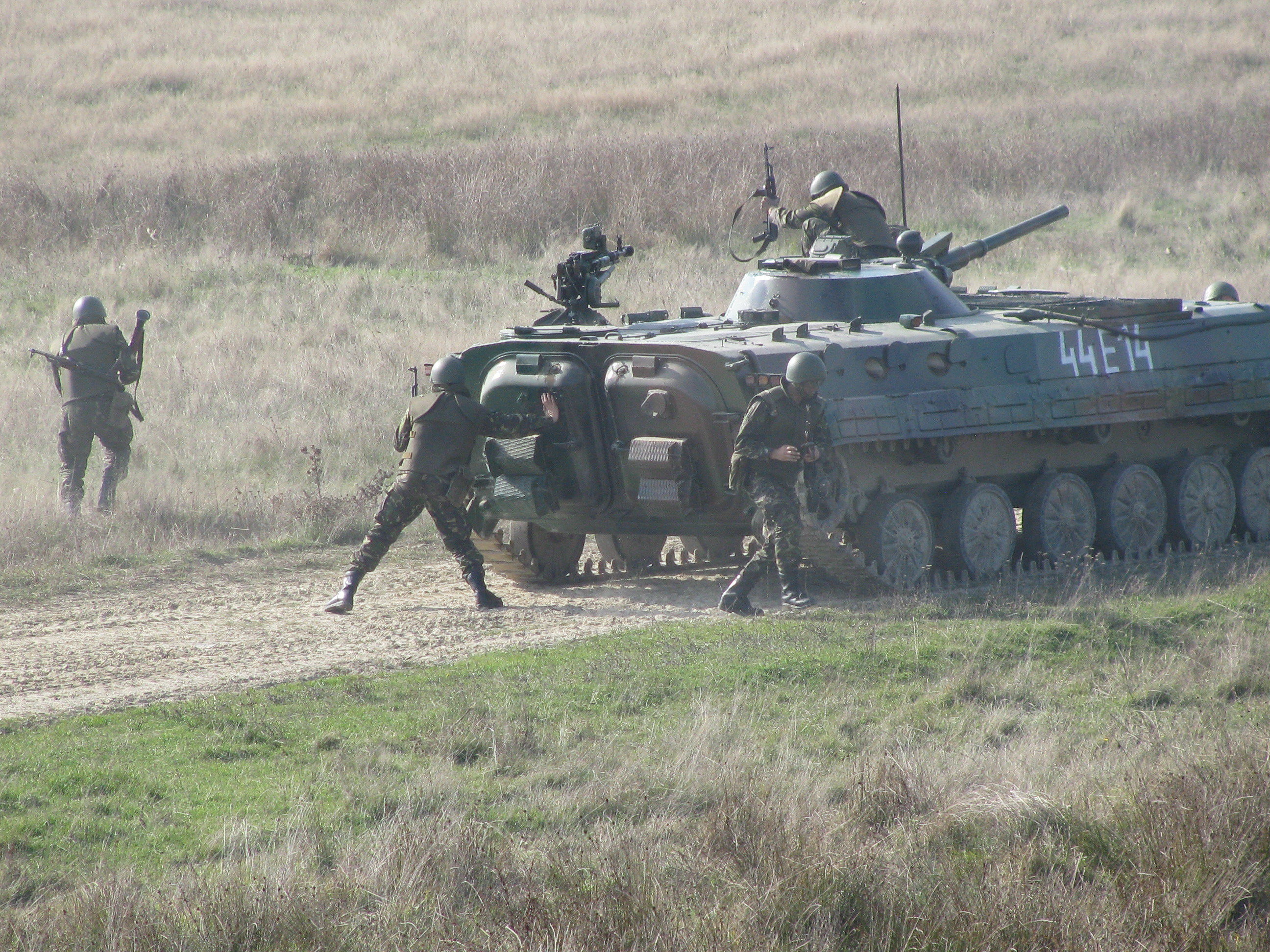 Soldiers dismounting from a MLI-84 IFV (basic version) during a military exercise.